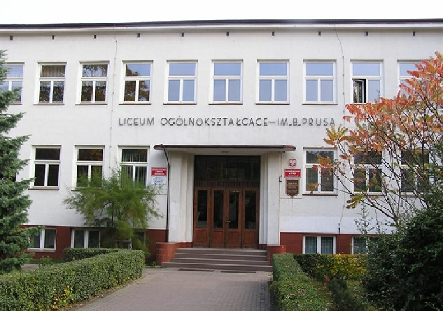 Bolesław Prus Grammar School in Skierniewice